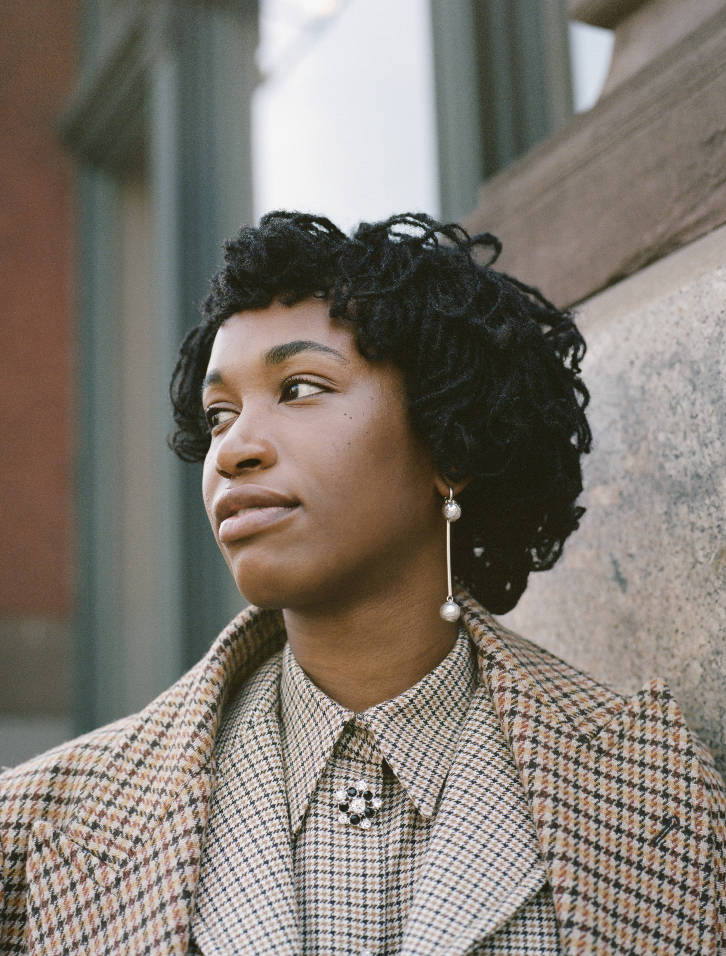 Photo of American painter Tschabalala Self